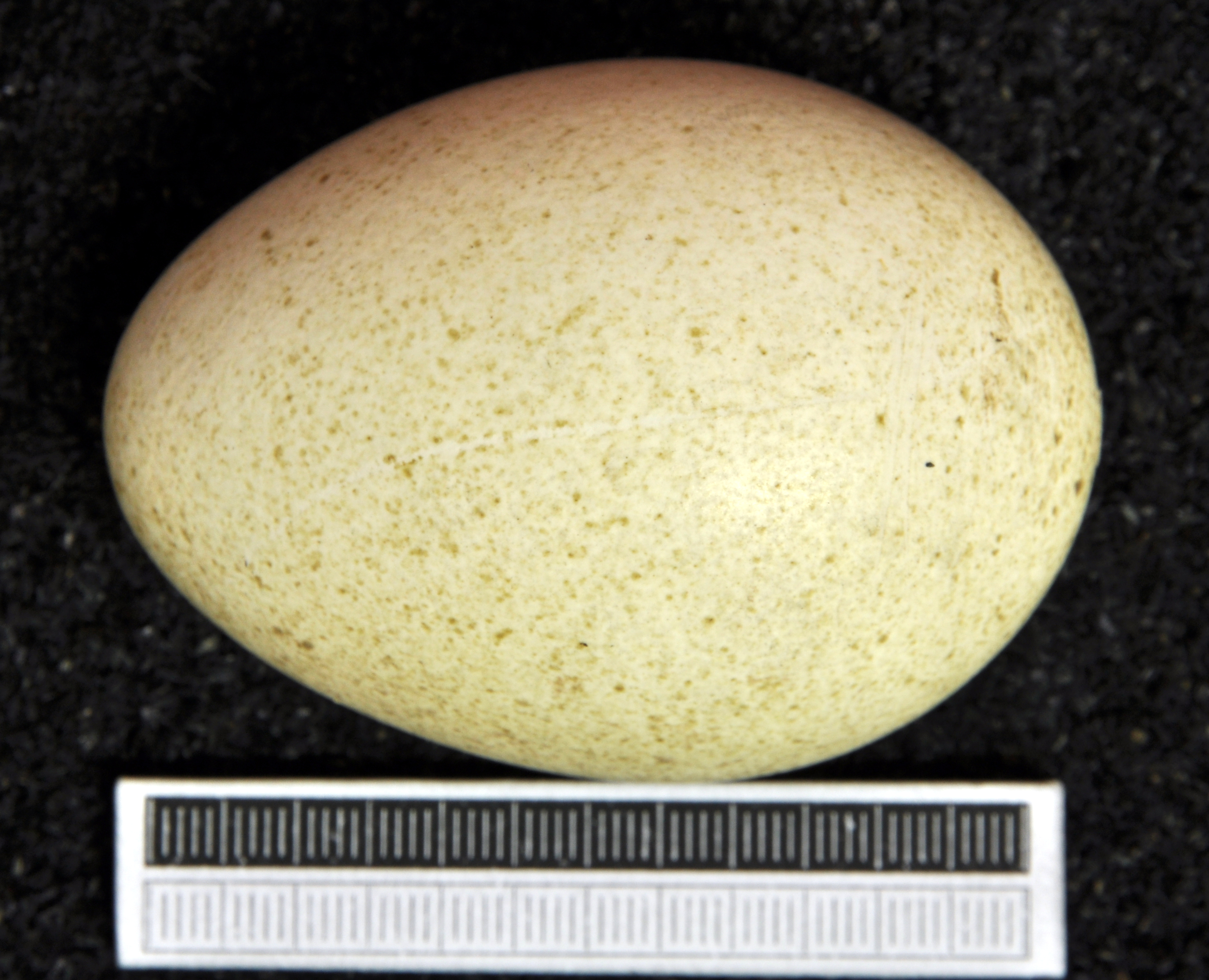 Wild turkey Meleagris gallopavo , egg, Coll. Museum Wiesbaden